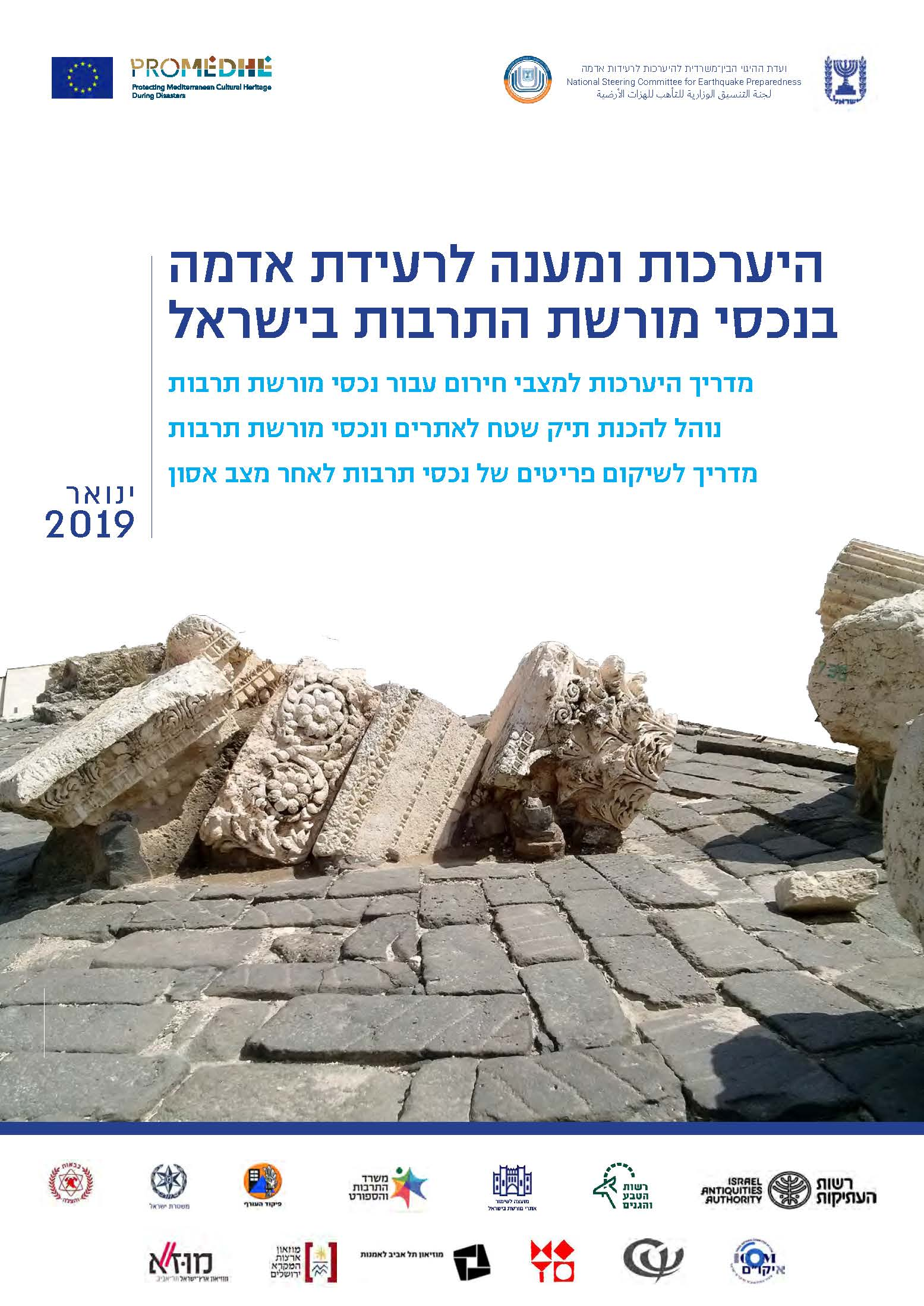 Earthquakes Preparedness Guidelines for Cultural Heritage Sites and Assets in Israel, including Disaster Response Plan.